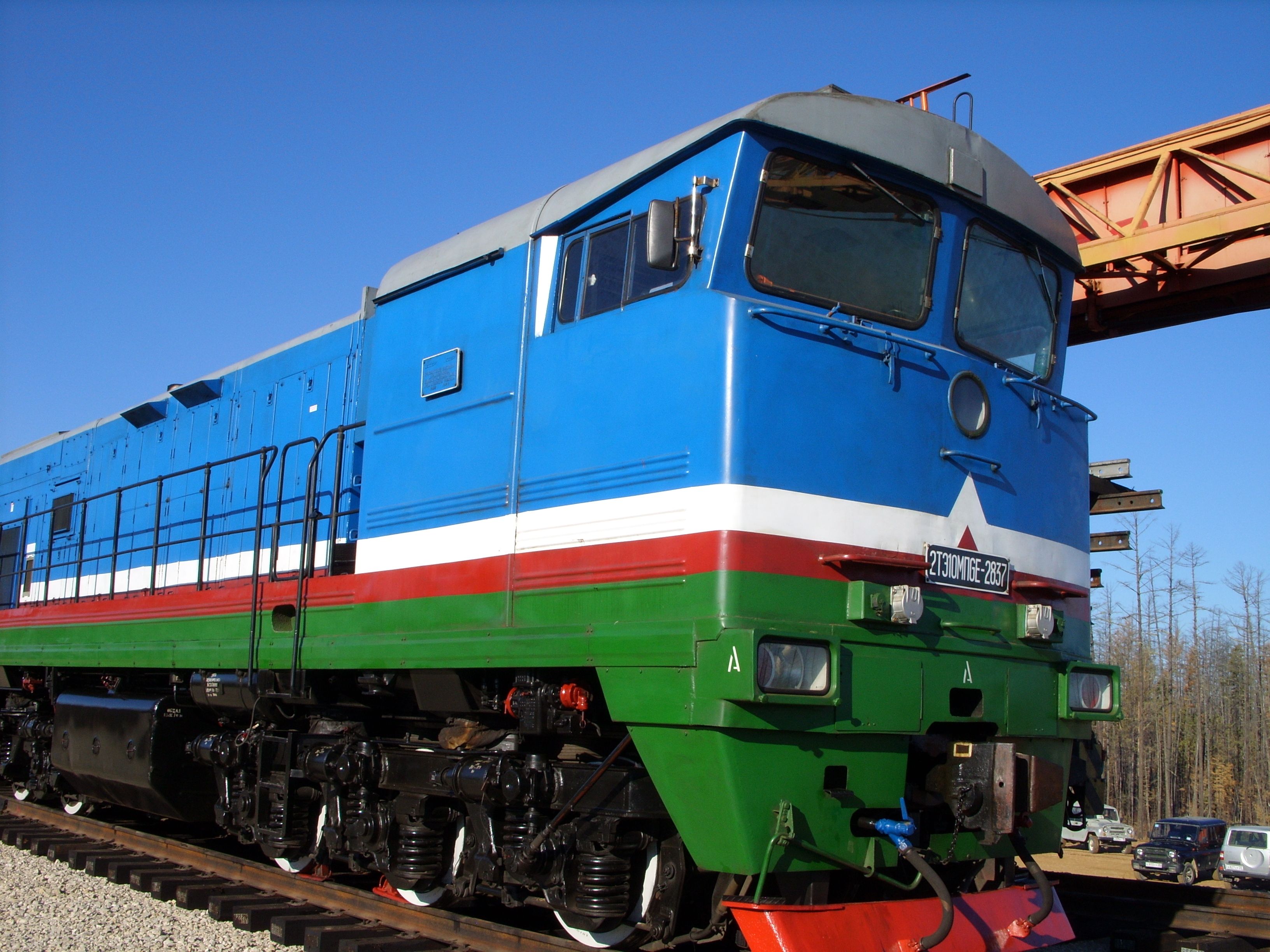 Celebration of the arrival of the railway in central Yakutia